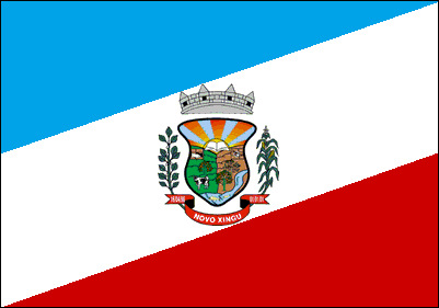 Flags of the city of Nova Xingu, Rio Grande do Sul, Brazil.